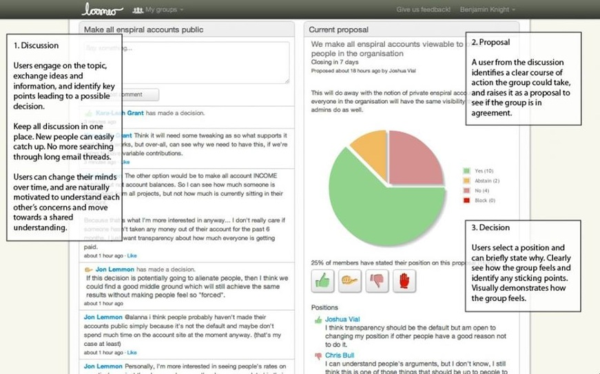 this photo shows how Loomio is working.